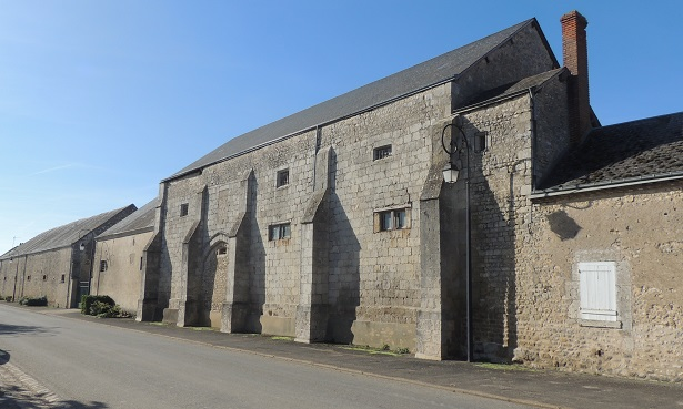 Grange dîmière : row of the buildings that were used to store the cereals on the right side of the road begining with the former convent with its side arch